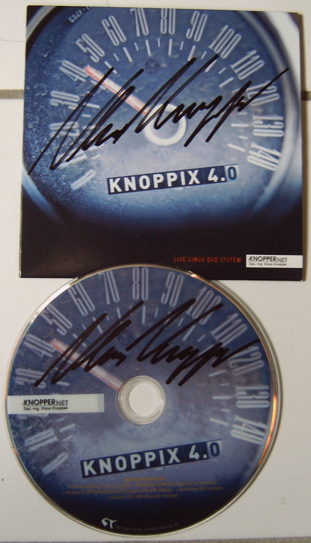 Knoppix-DVD 4.0 from LinuxTag 2005, with signature from Klaus Knopper.